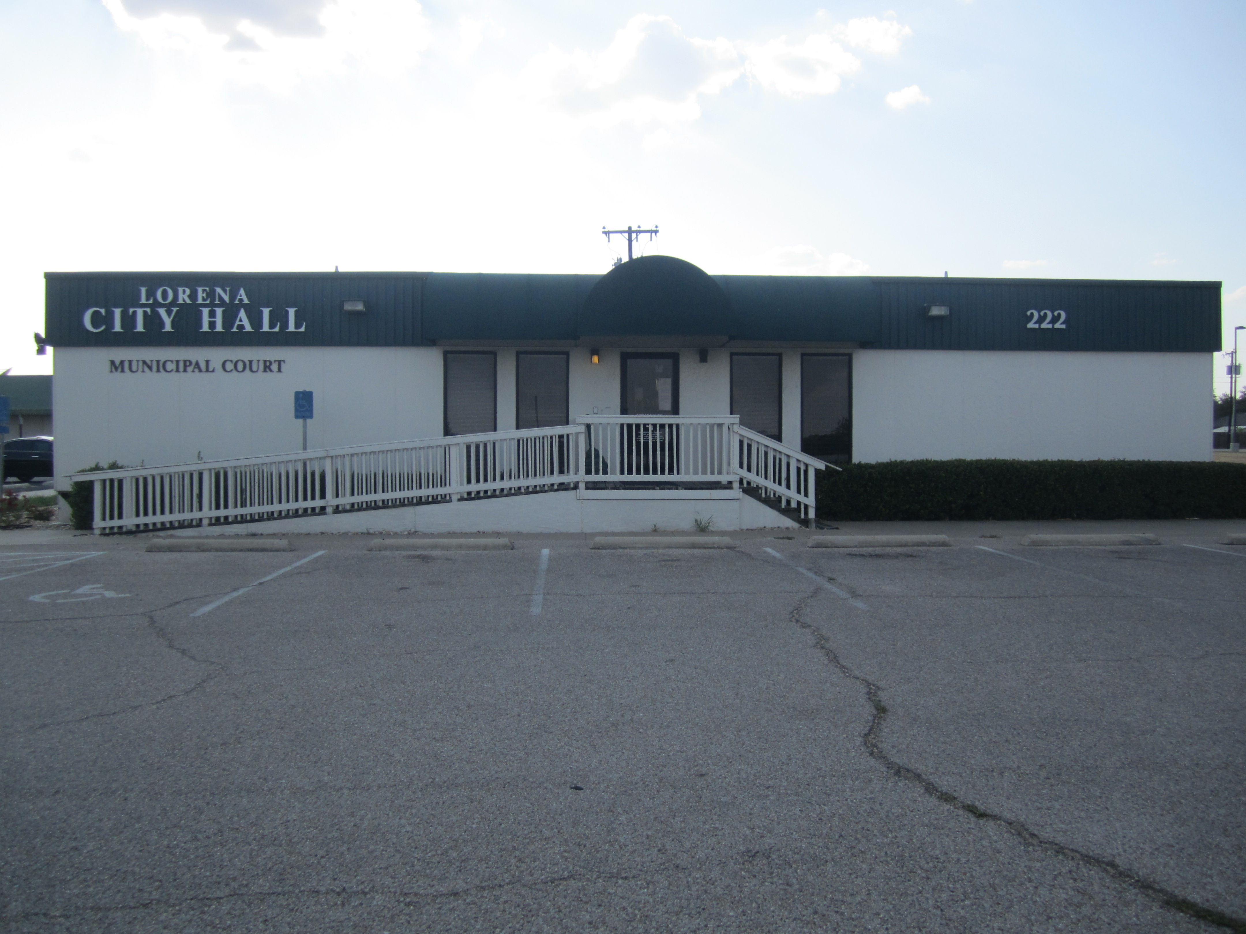 I took photo of Lorena, TX, City Hall, with Canon camera.